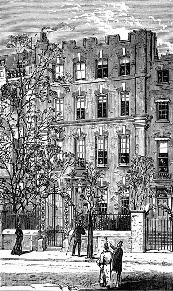 4 Cheyne Walk in Chelsea, London, which was briefly the home of George Eliot. Illustated London News 1881...